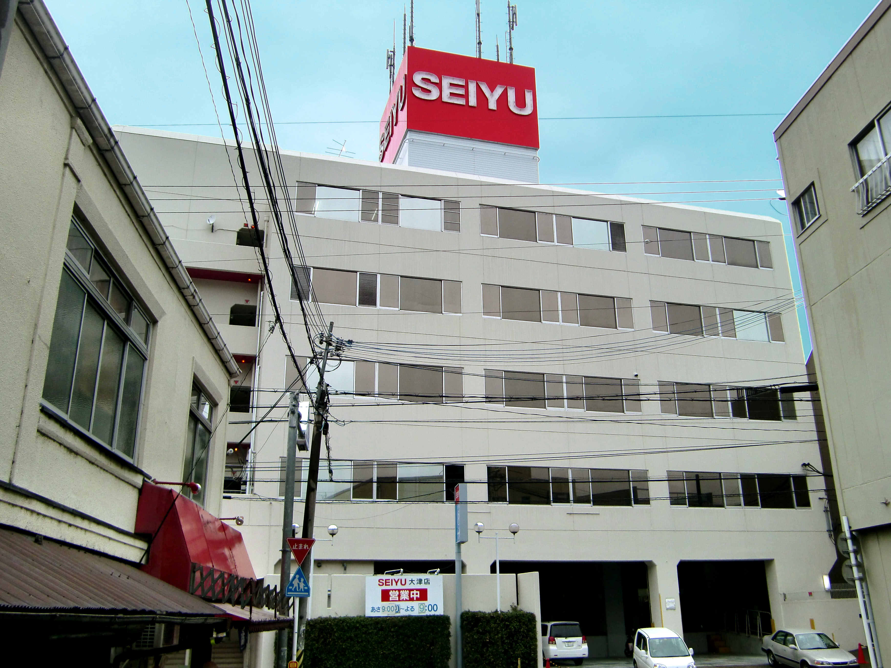 SEIYU Otsu,2-2-18 Nagara Otsu-city Shiga Japan.